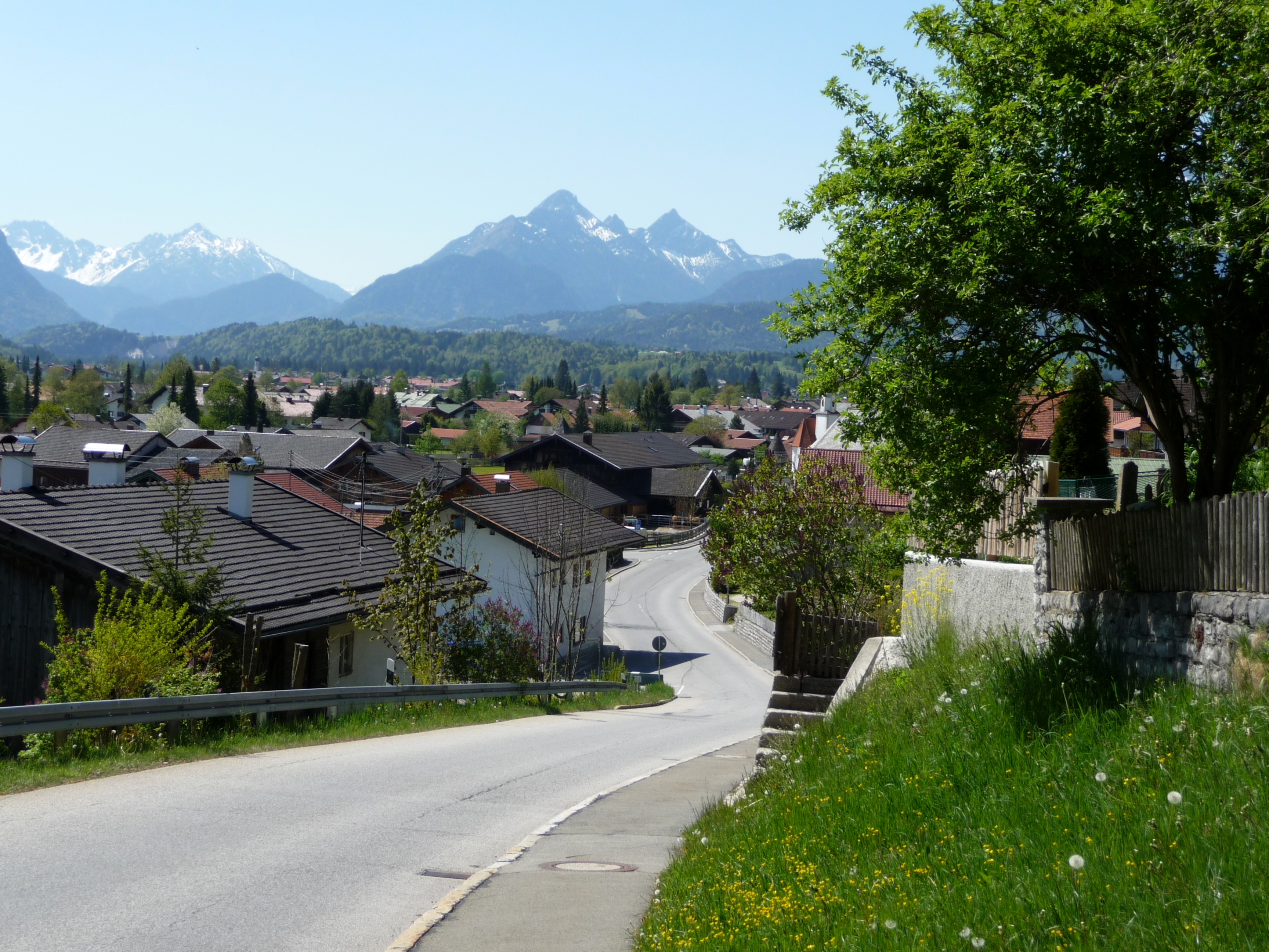 "Bundesstraße 11" northeast from village center, View to "Wetterstein", Wallgau, Germany